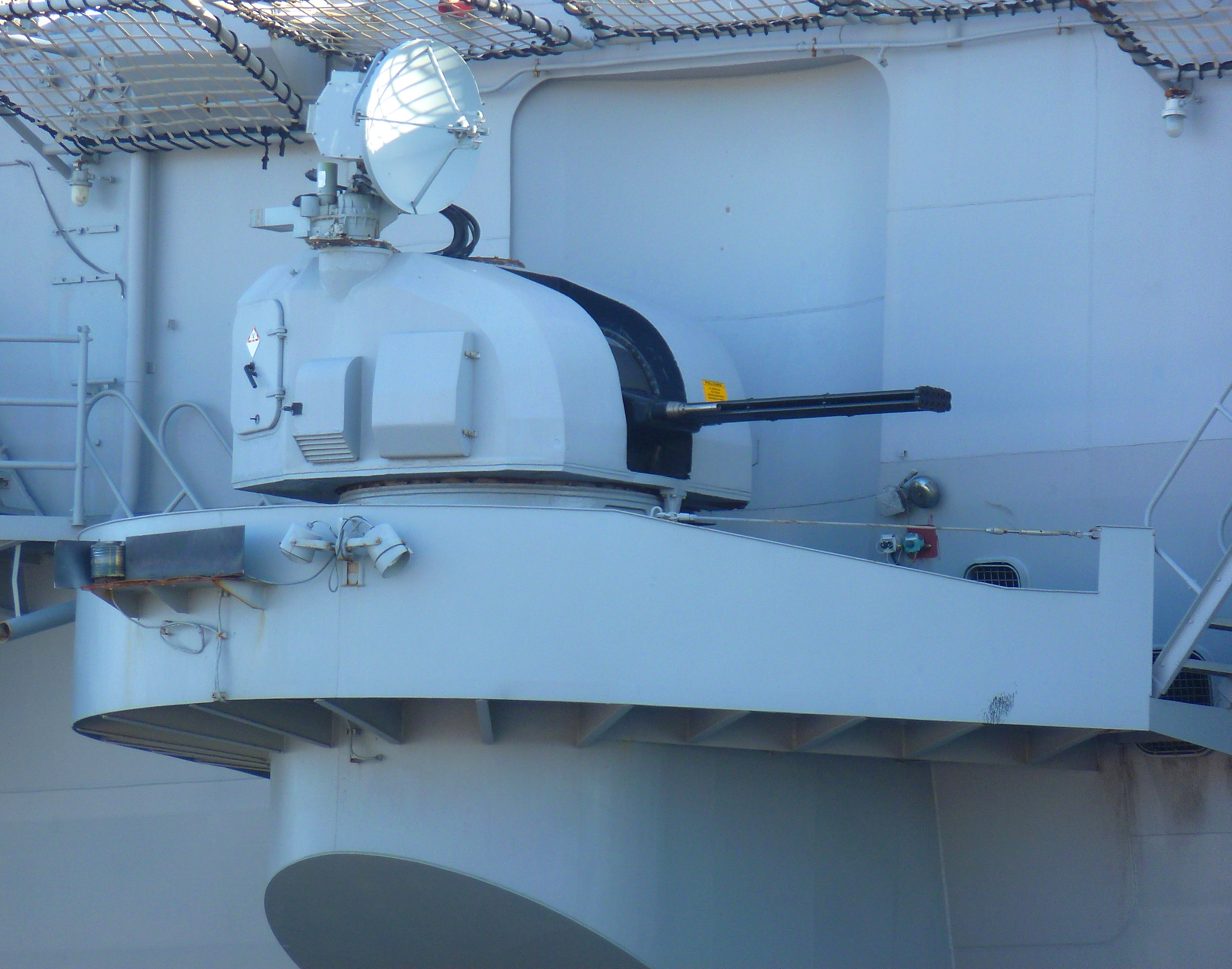 Meroka gun of the Spanish Navy aircraft carrier "Príncipe de Asturias", R-11.